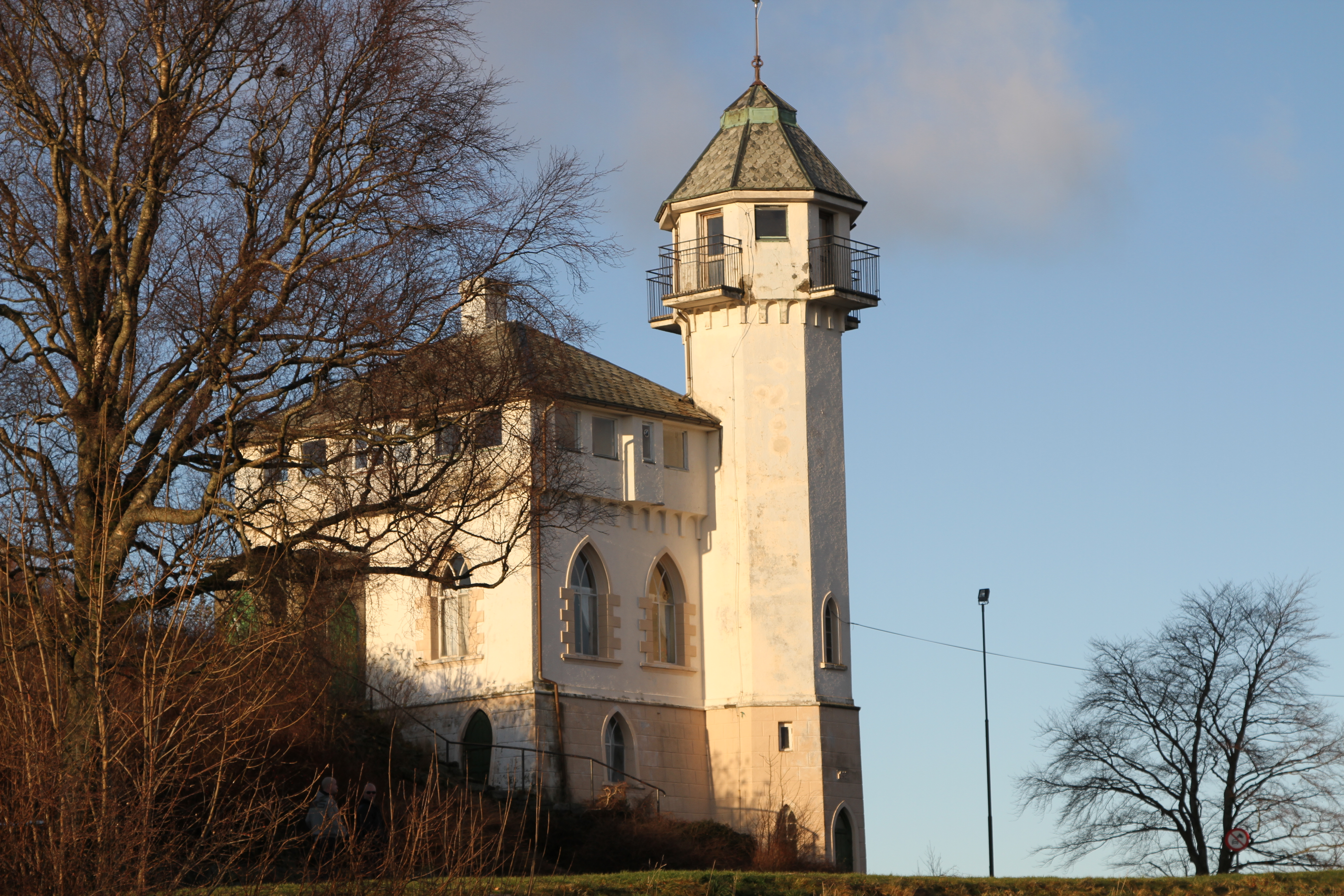 Vålandstårnet in Stavanger, Norway